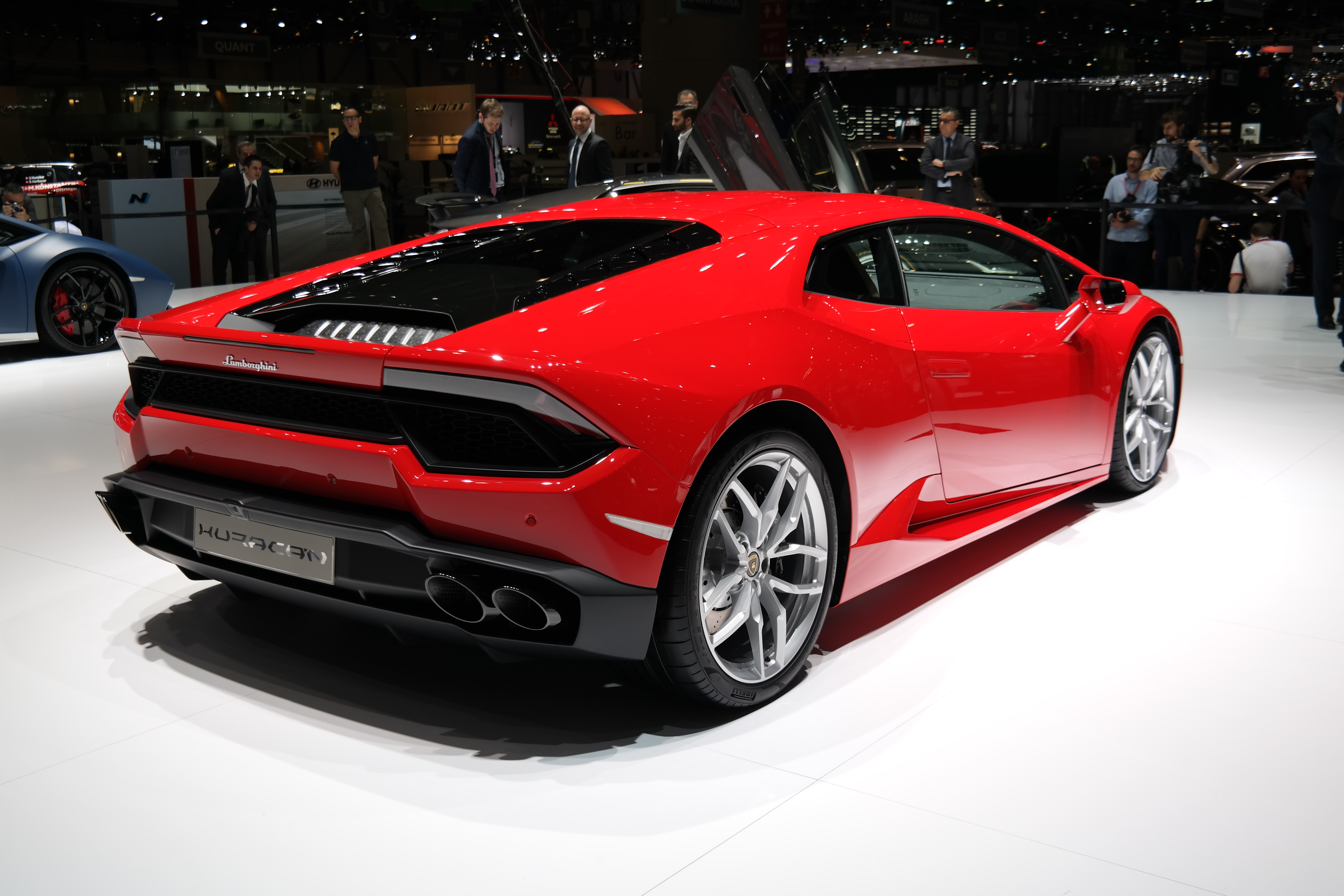 Geneva Motor Show 2016 (photo taken on the first press day)